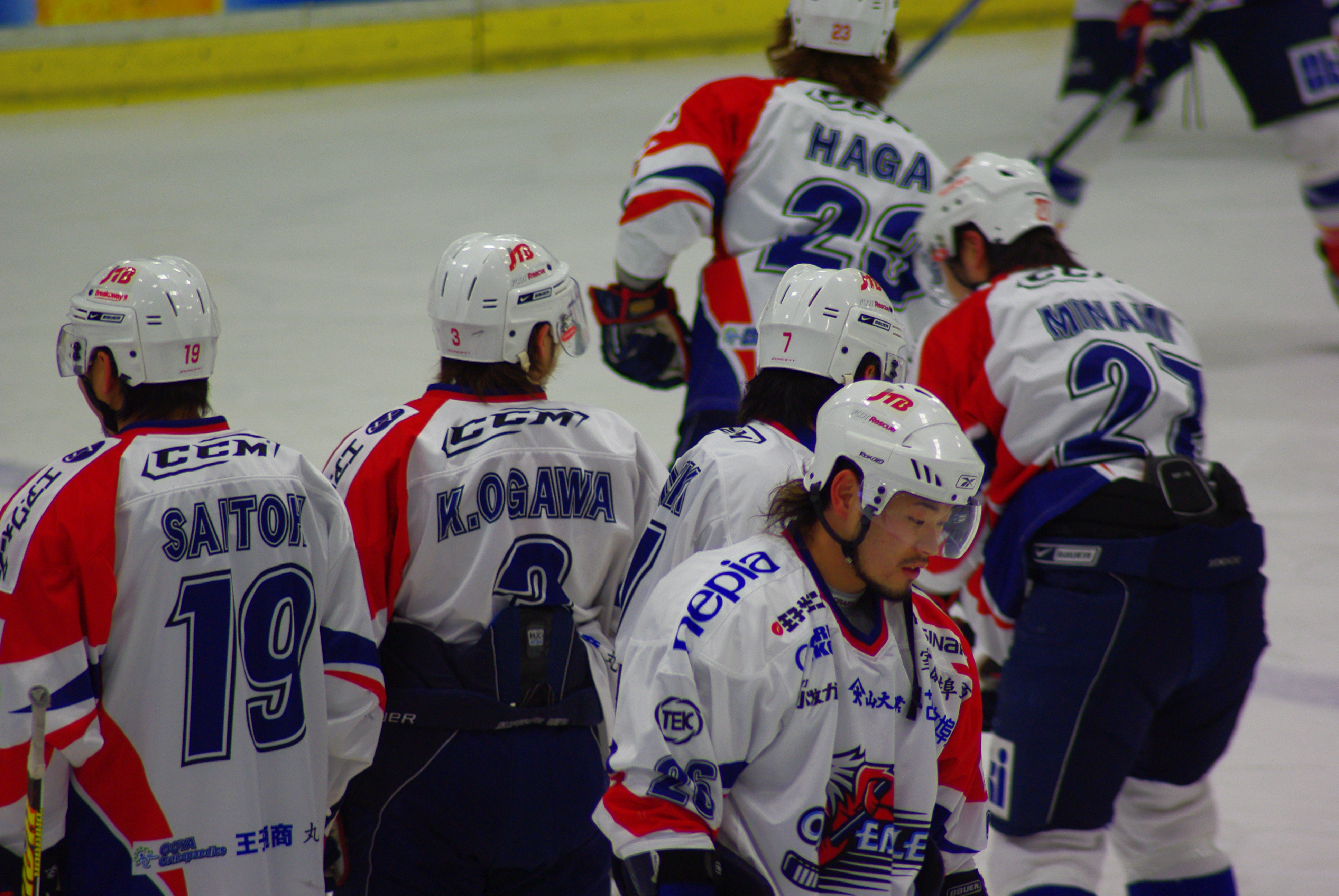 Oji Eagles players warm-up